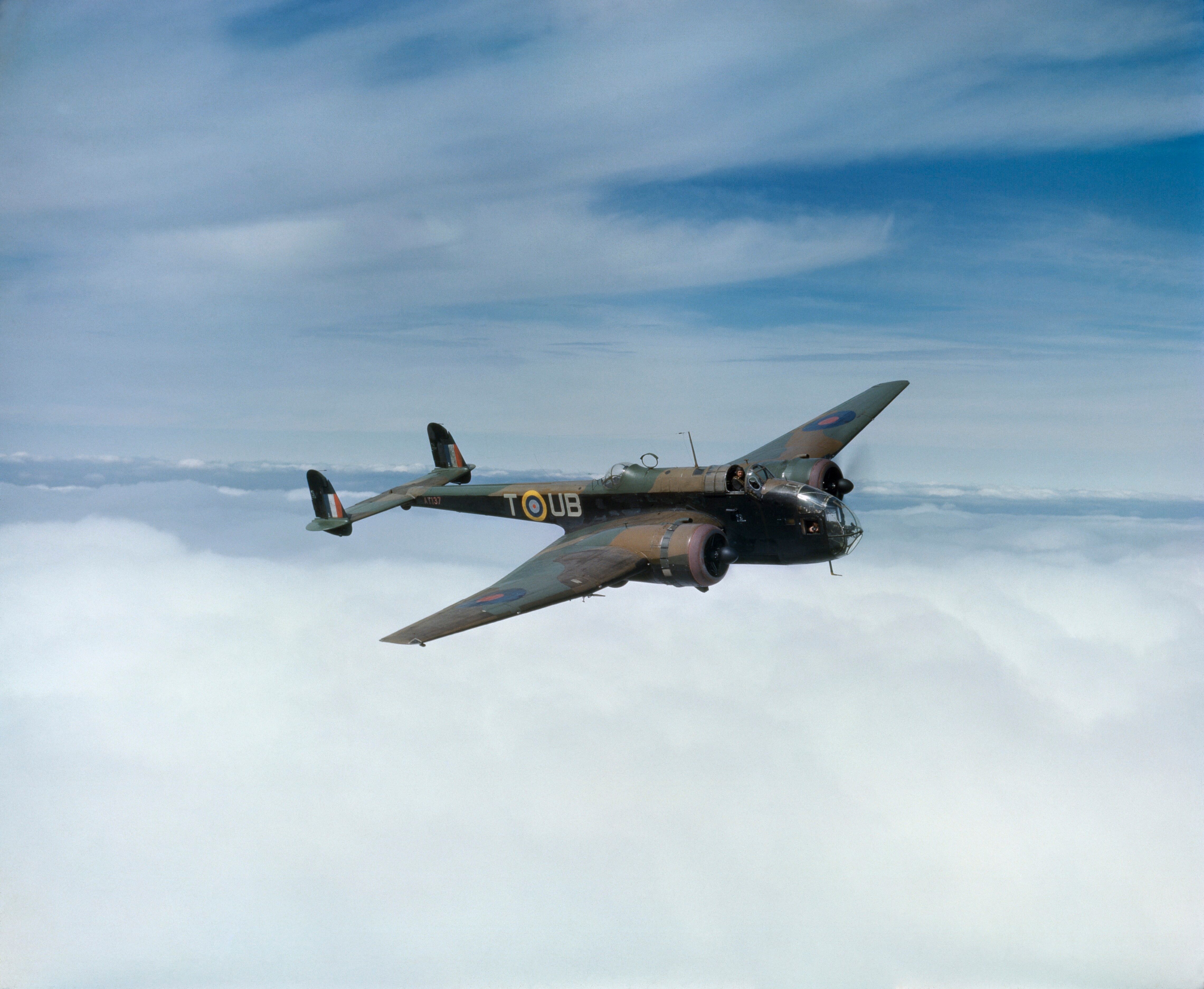 Handley Page Hampden Mk I of No.455 Squadron RAAF, based at Leuchars in Scotland, May 1942. A Handley Page Hampden Mark I, AT137 'UB-T', of No 455 Squadron RAAF based at Leuchars, Fife, Scotland, in flight above clouds, May 1942.